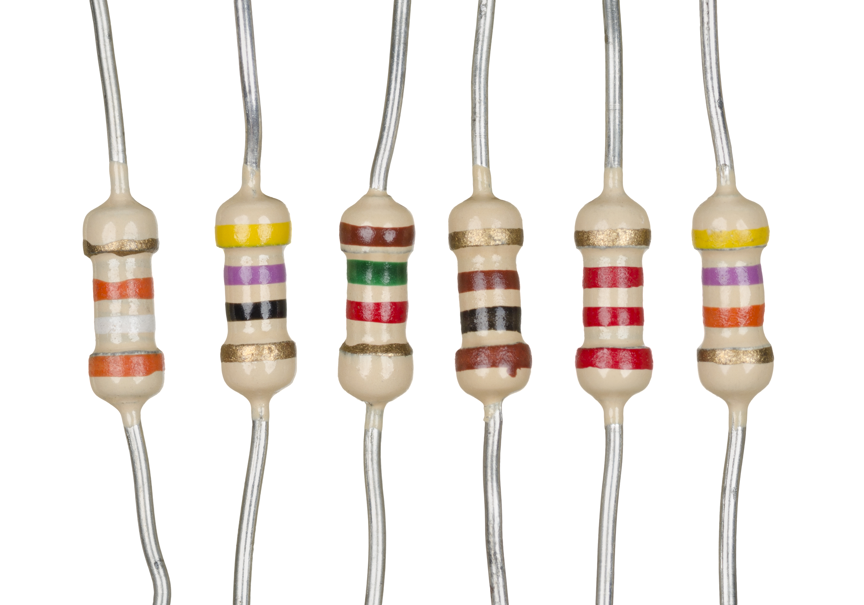 An array of axial-lead resistors of varying resistance.